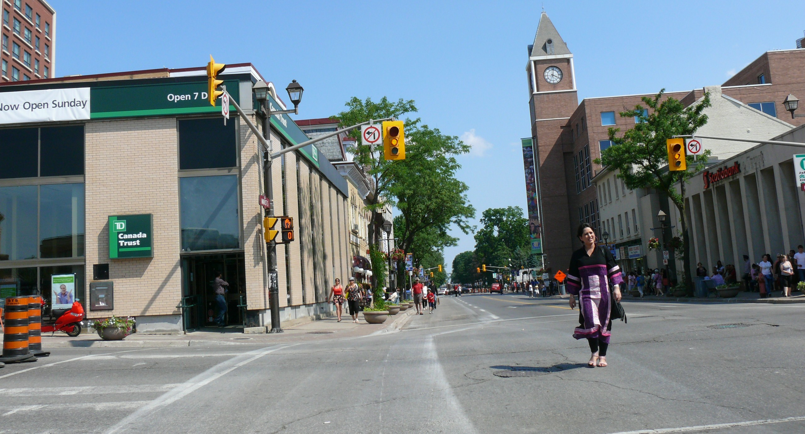 MISHA BAJWA CHAUDHARY AT THE CENTRE OF BUSIEST ROADS OF BRAMPTON DOWNTOWN,CANADA IN 2011